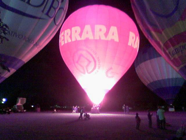 Nocturne photograph oh the hot-air-balloons of the Ferrara Balloons Festival